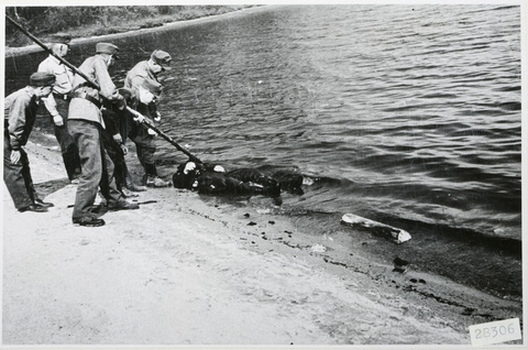 One of 300 images declassified by the Finnish government in 2006 showing the Winter War and Continuation War against the Soviet Union from 1939-45.